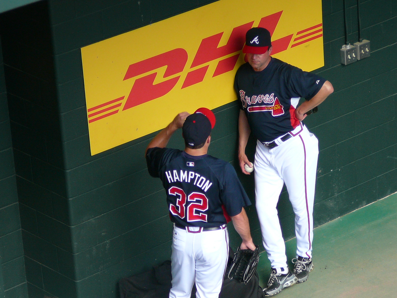 User:Chrisjnelson agreed to license this image of Hampton_McDowell.jpg under a free attribution license. Any use of this image must be attributed; this means that Photo by :en:User:Chrisjnelson|Chris Nelson should be in the picture caption. 21:29, 23 April 2008 . . Chrisjnelson . . 1,280×960 (511 KB)